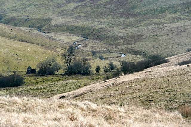 Nant Bran Taken from the permissive path across the moor, the former drove road. This is looking into Nant Bran beyond the former farmstead of Blaentalar. It all looks pretty wet from up here, but there appears to be a hint of the bridleway that runs along the contour above the right bank. The area is not often open to the public but it is a non-firing day and the red flags are down.